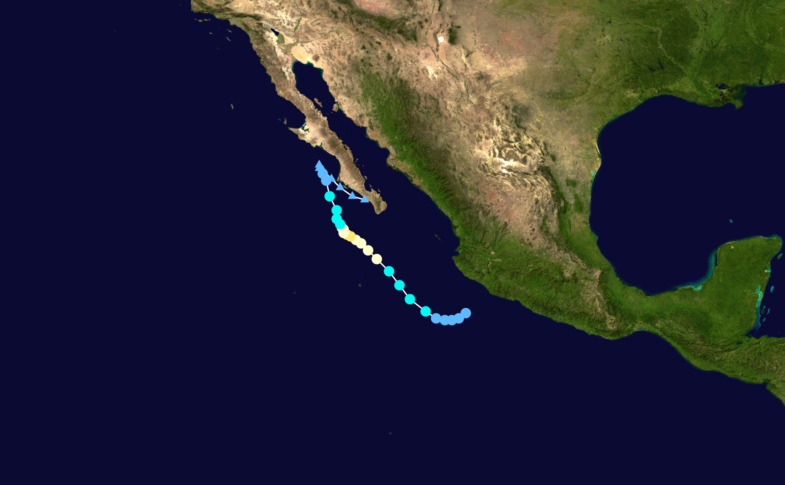 Hurricane Otis (2005) track. Uses the color scheme from the Saffir-Simpson Hurricane Scale.